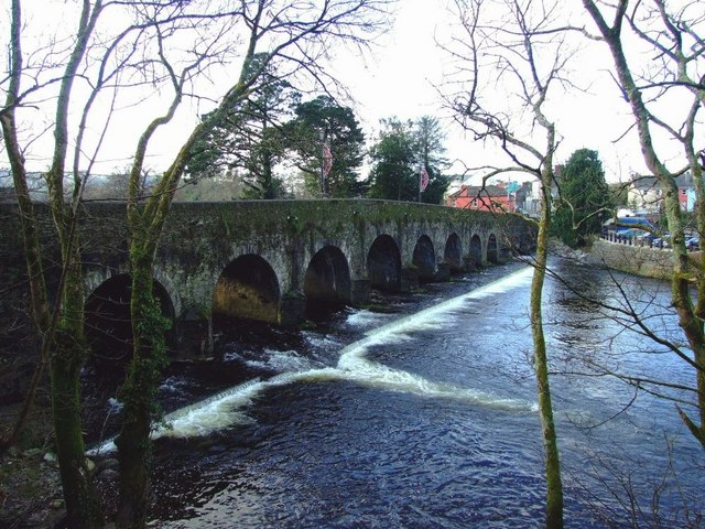 Bridge over the River Sullane, Macroom from the new riverside walk.